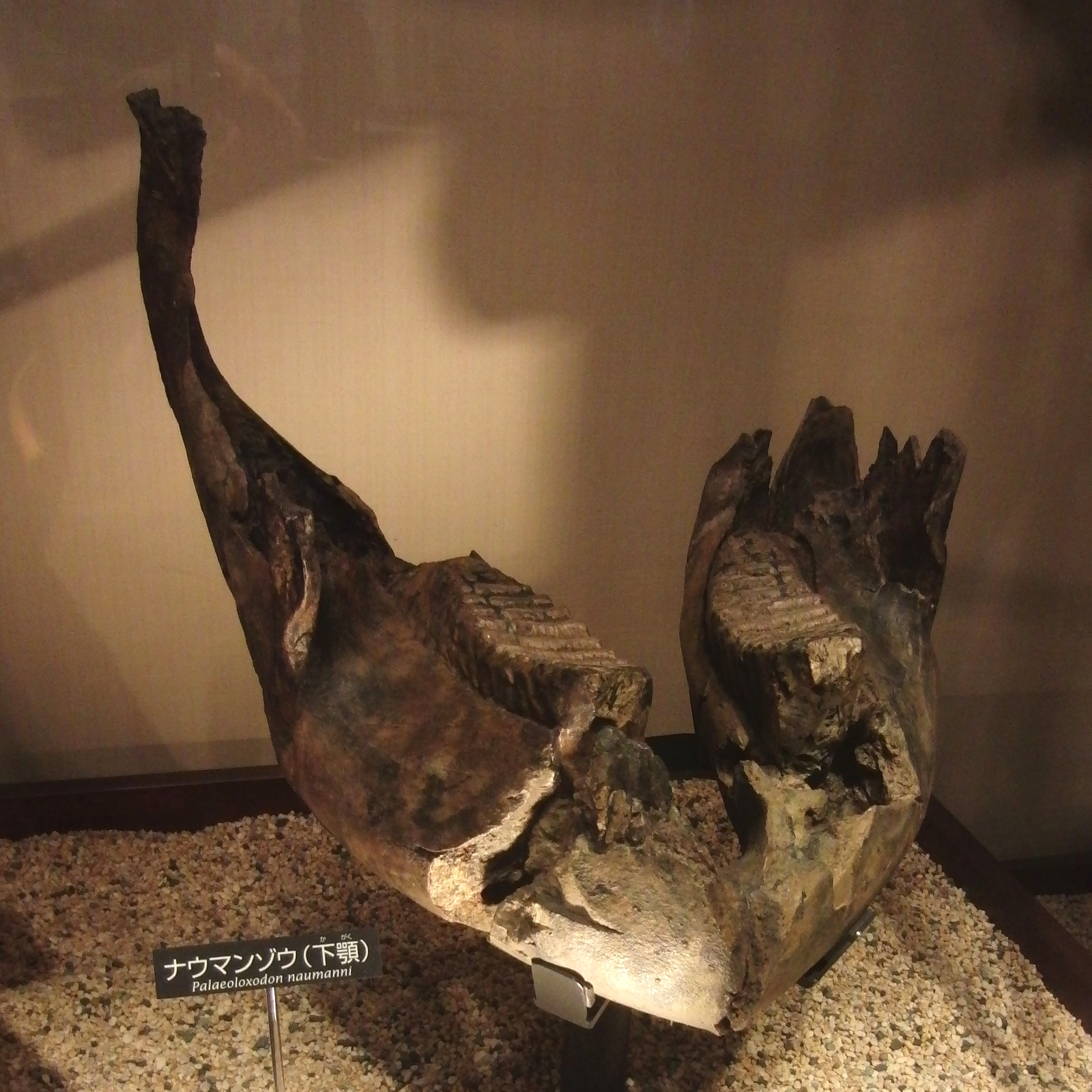 Fossil of Mandible of Elephas naumanni (Palaeoloxodon naumanni) found from the construction site of subway (Meiji-Jingumae Station) in Tokyo. Exhibit in the National Museum of Nature and Science, Tokyo, Japan.